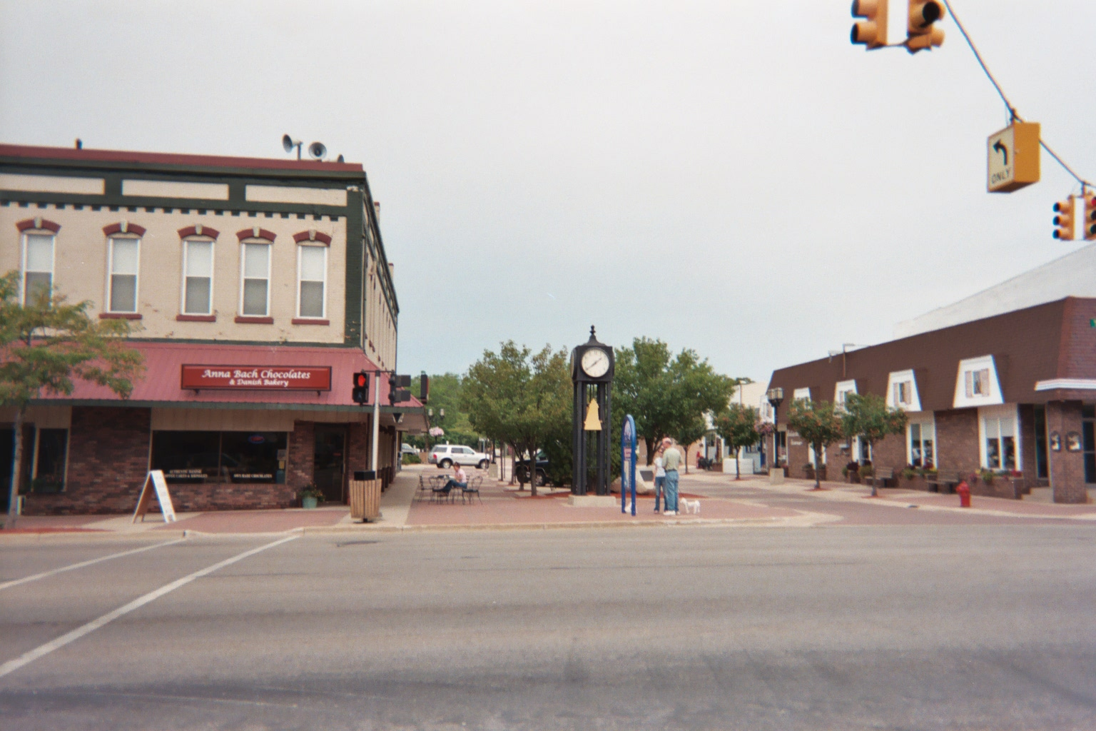 "The Clock Tower" park at the intersection of Ludington Ave. (US-10) and James Street in downtown Ludington. To the left is a Danish bakery. This photo was taken in the summer of 2004.